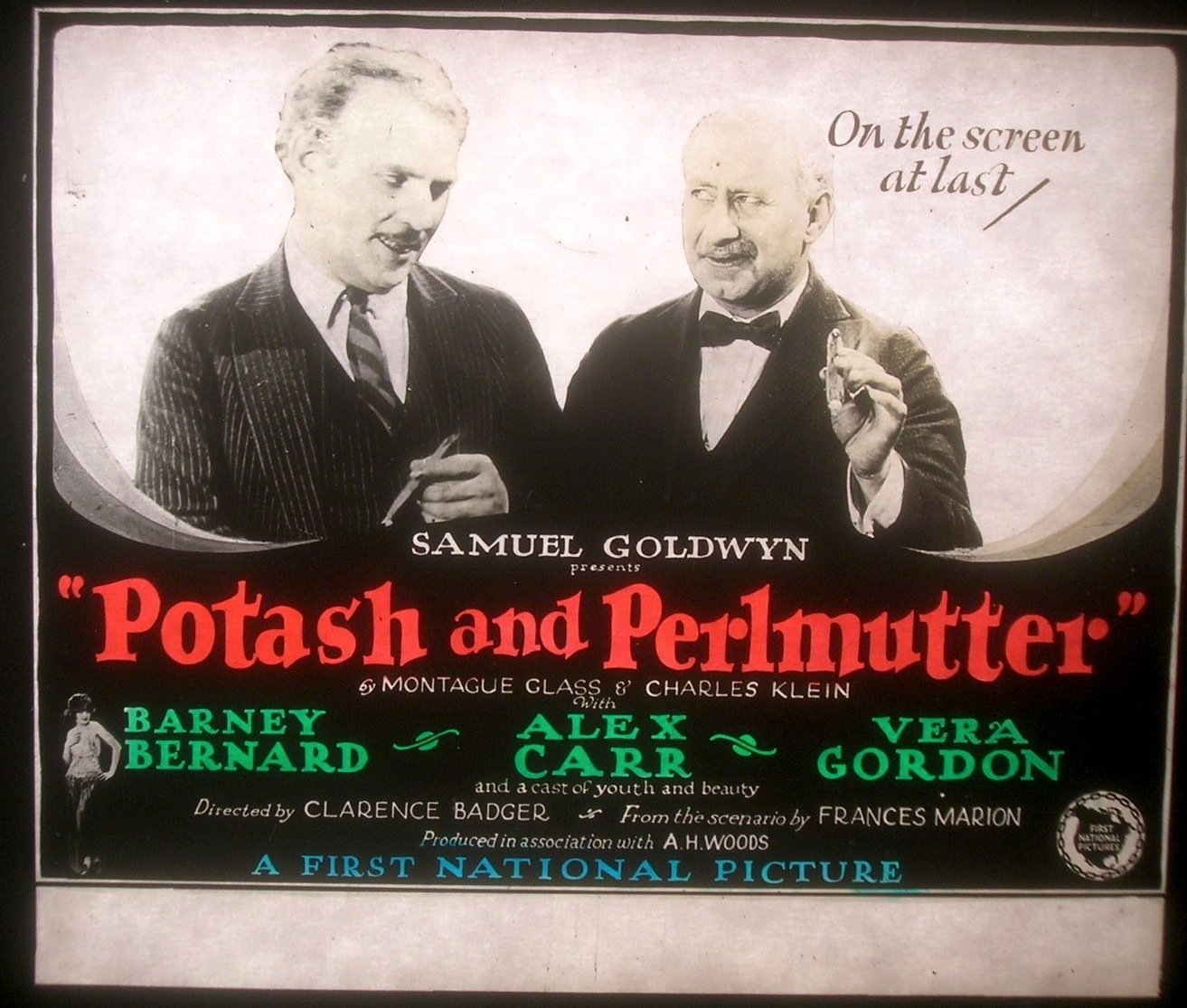 Lantern slide for the American film Potash and Perlmutter (1923) with no copyright notices.